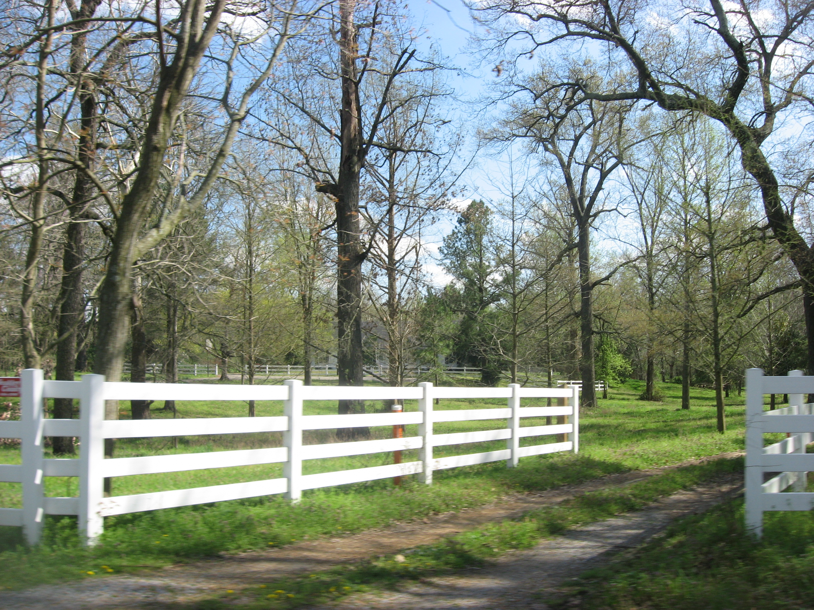 Overview of part of the Jesse Whitesell Farm, located along W. State Line Road (Kentucky Route 116) in South Fulton, Tennessee, United States. The farm complex is listed on the National Register of Historic Places.